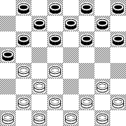 Opening "Igra Bodyanskogo"